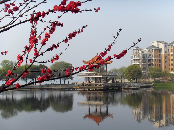 Shui Yue Pavilion,Sha Lake,Hubei University